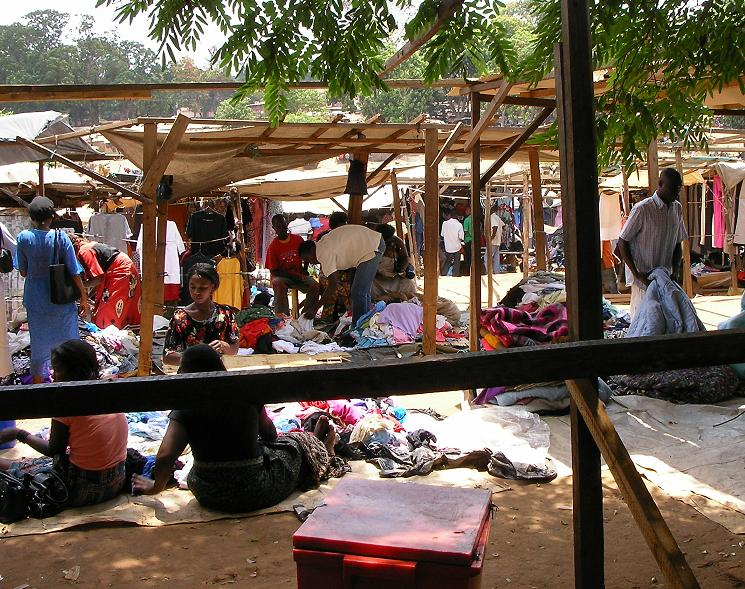 Clothing area of local market in Lilongwe, Malawi